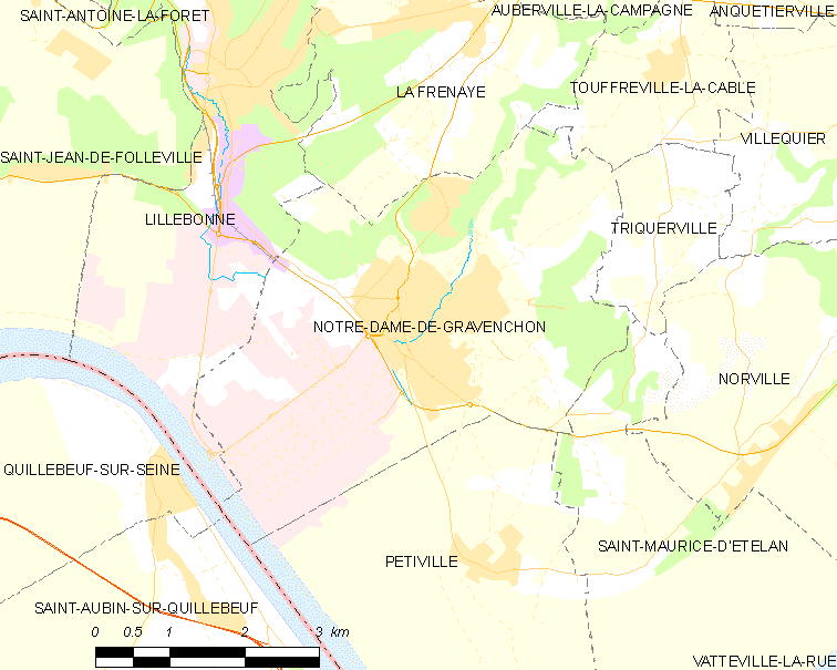 Map of French municipality Notre-Dame-de-Gravenchon